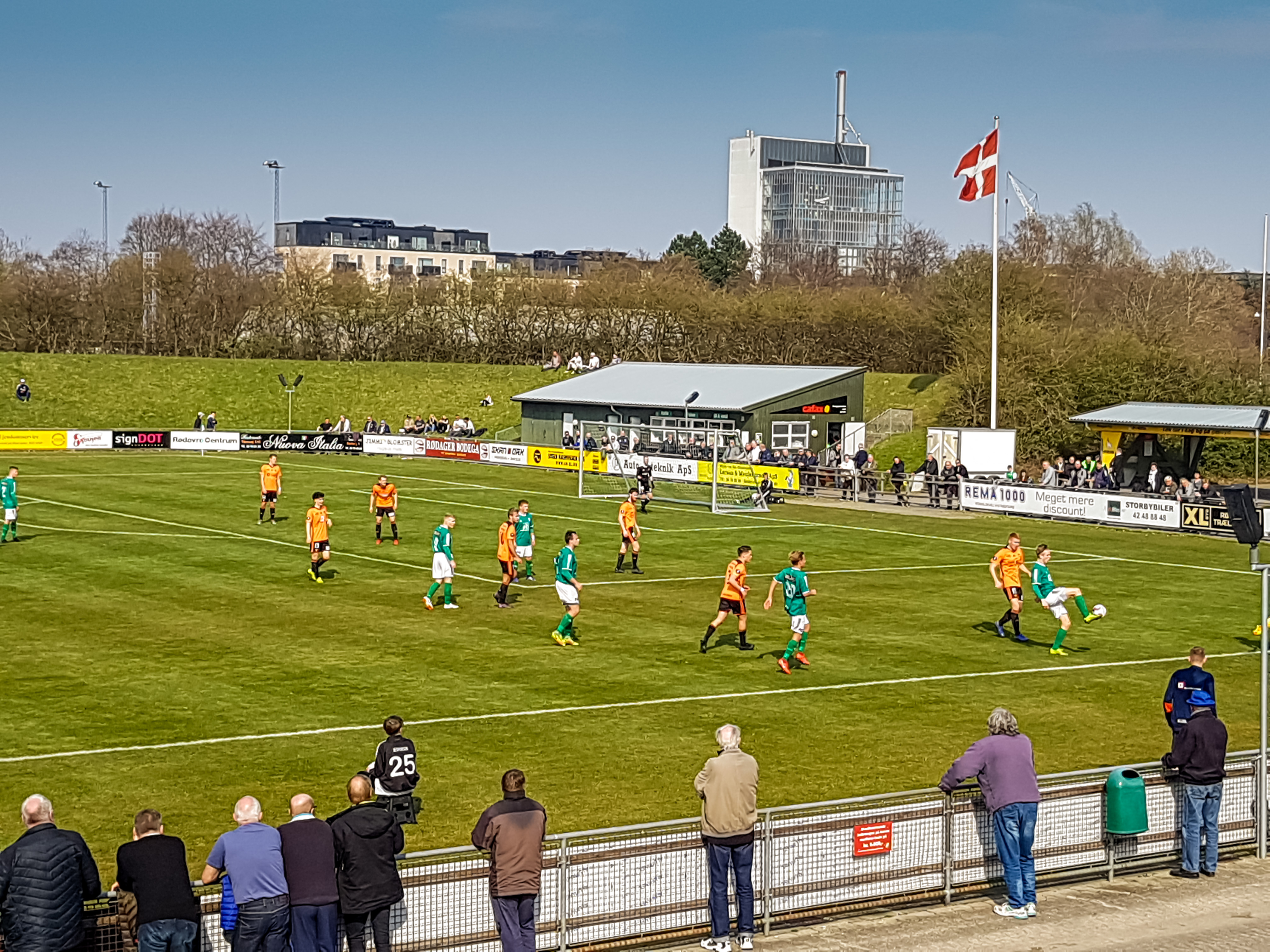 BK Avarta players on the attack in the football match between BK Avarta and Hillerød Fodbold in the Danish 2nd division (6 April 2019)